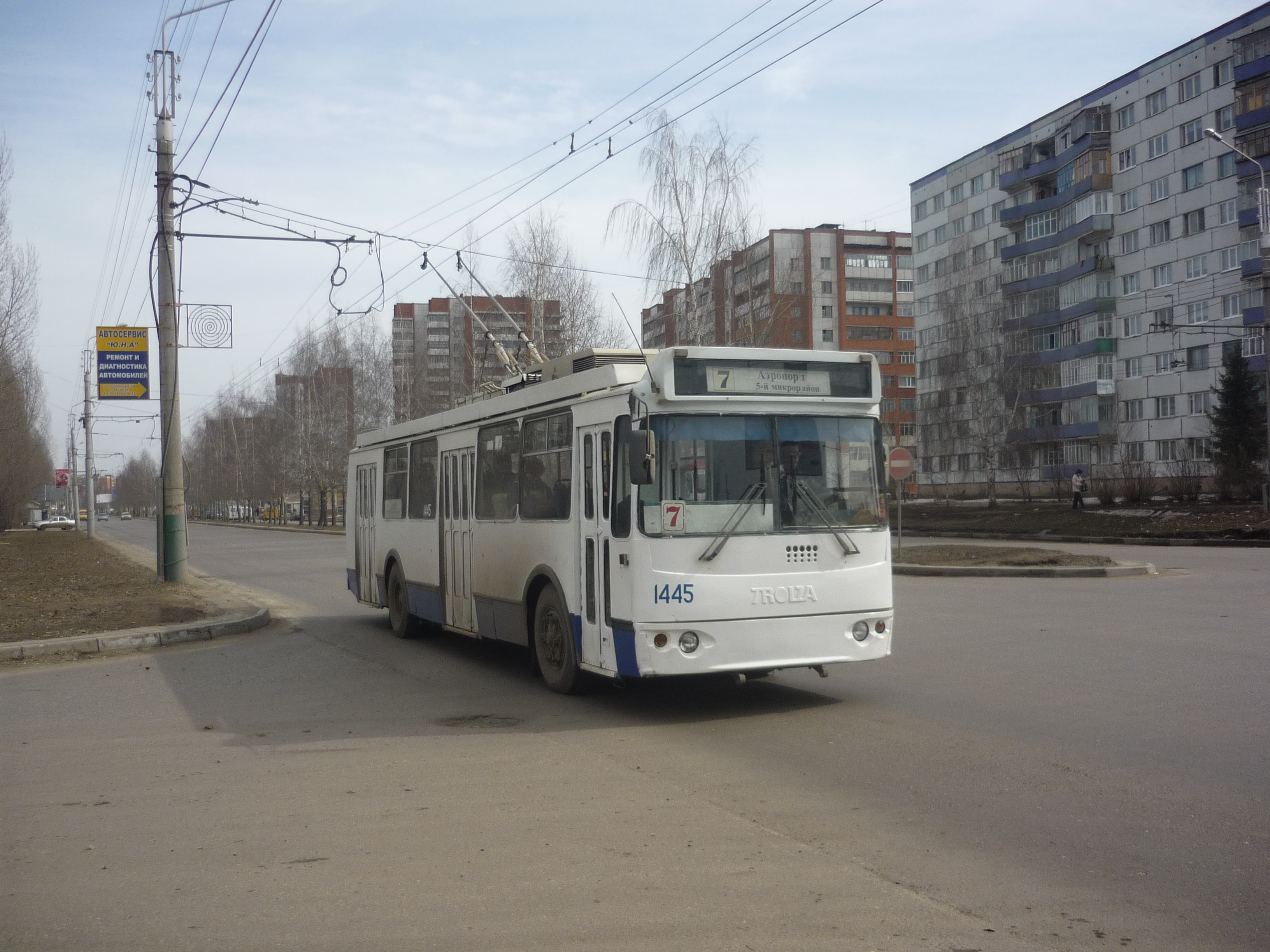 Trolleybus ZiU-682G-016(017) in Penza, Stroiteley avenue